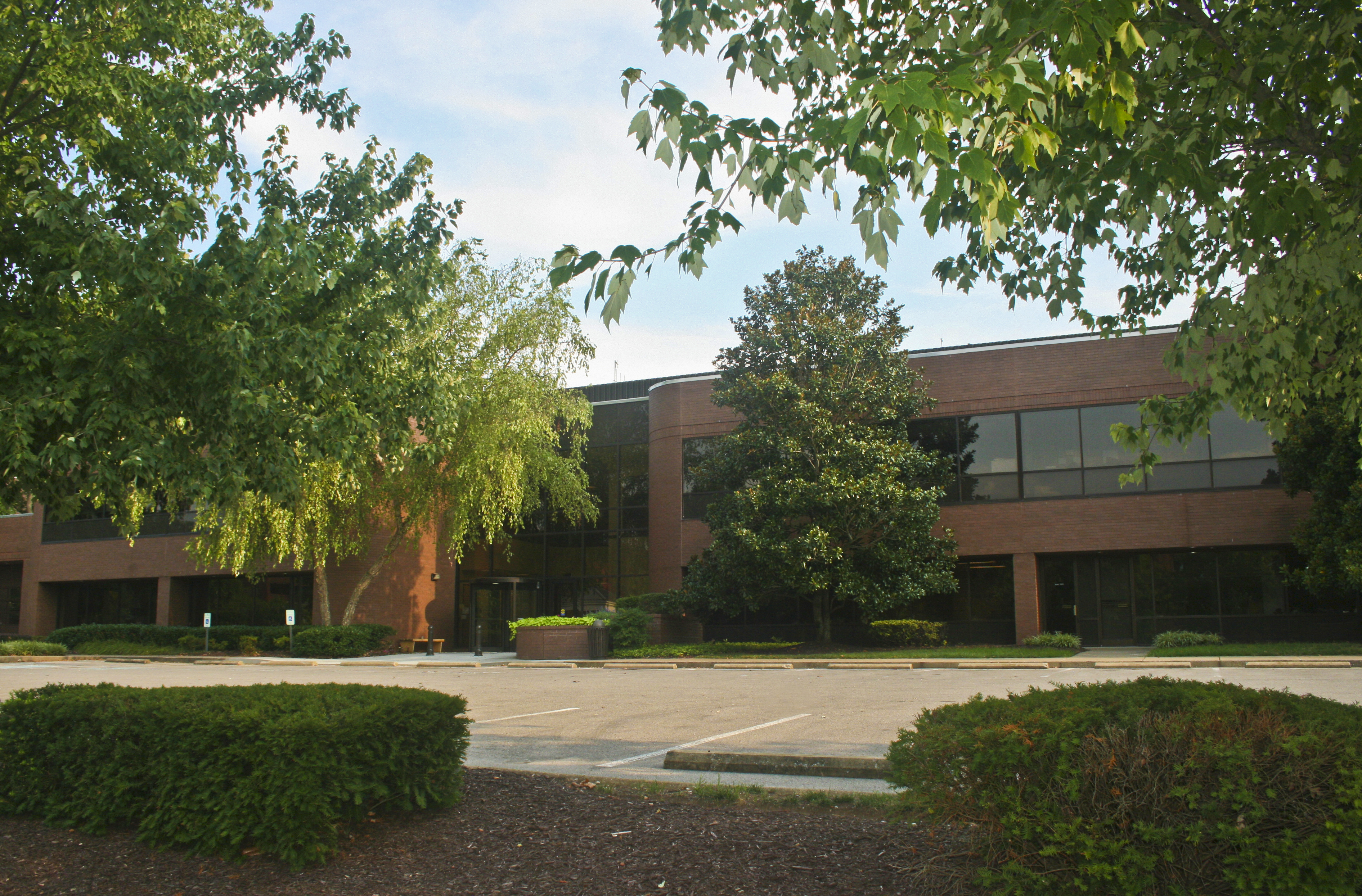 Brentwood Tennessee Town Hall. Includes city government offices (commissioners), Police, and Fire Stations.